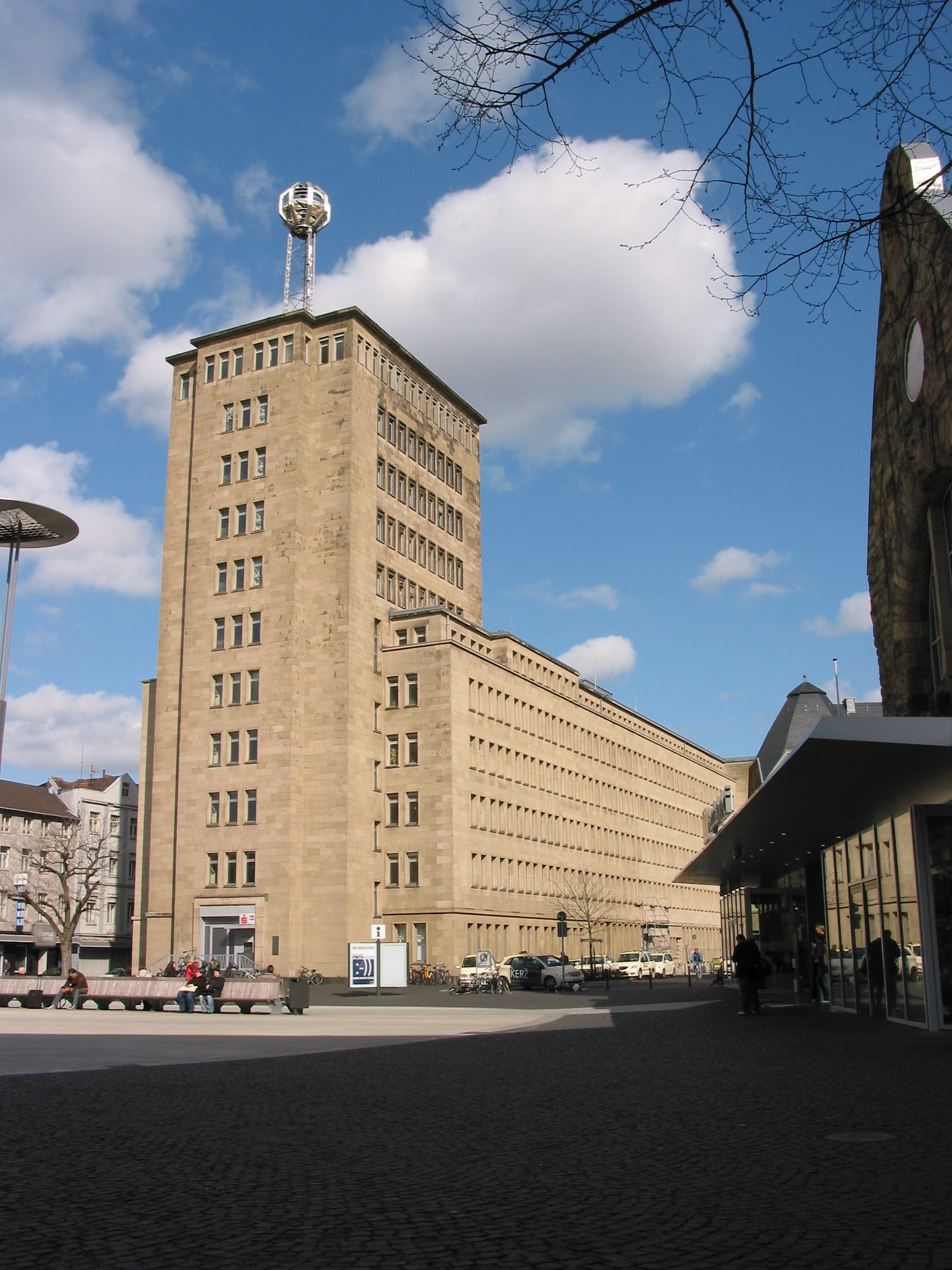 Verwaltungsgebäude (administrative building), Bahnhofplatz, Aachen, exterior.